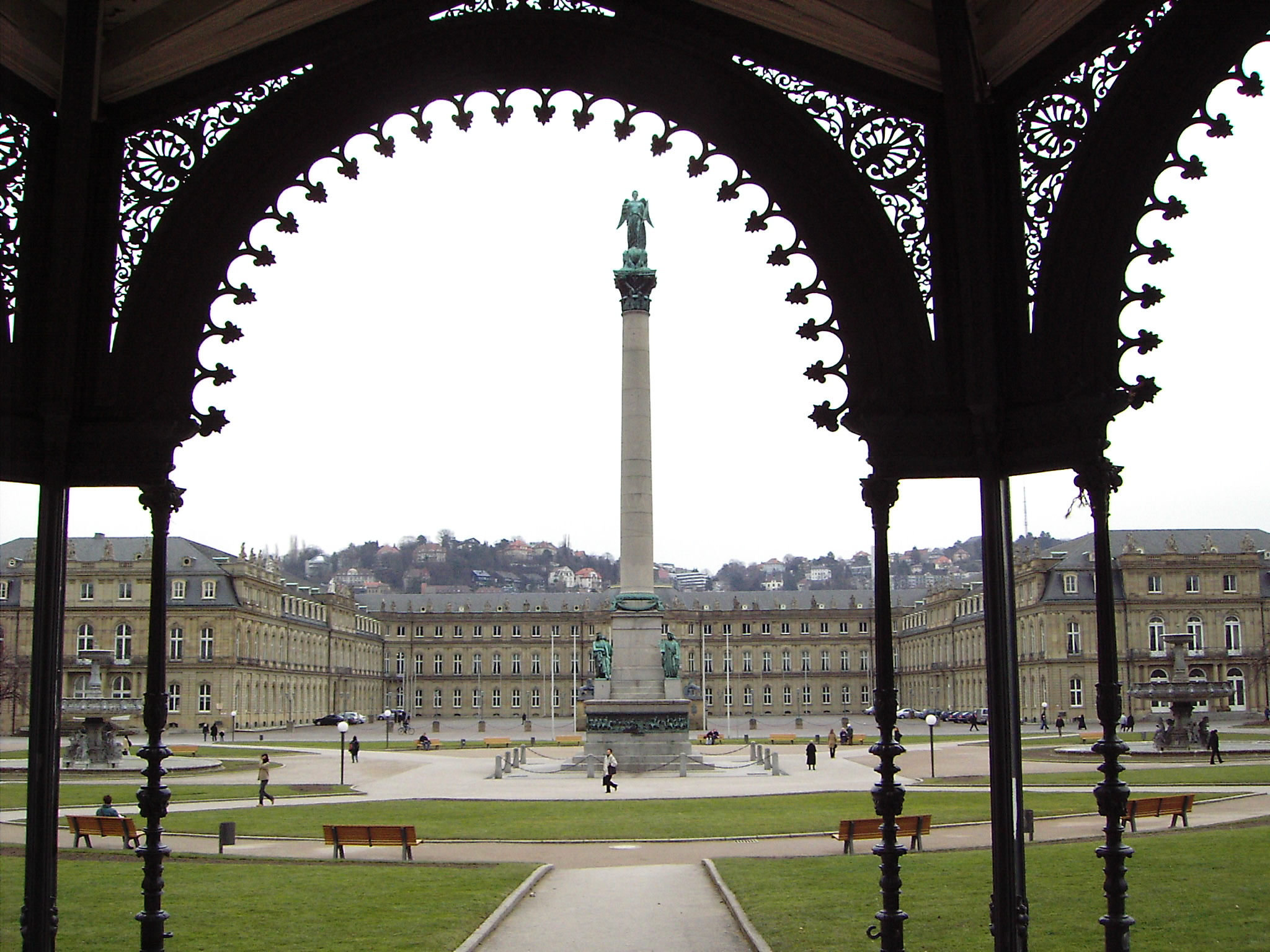 Castle "Neues Schloss" Of Stuttgart, Germany (exterior view)